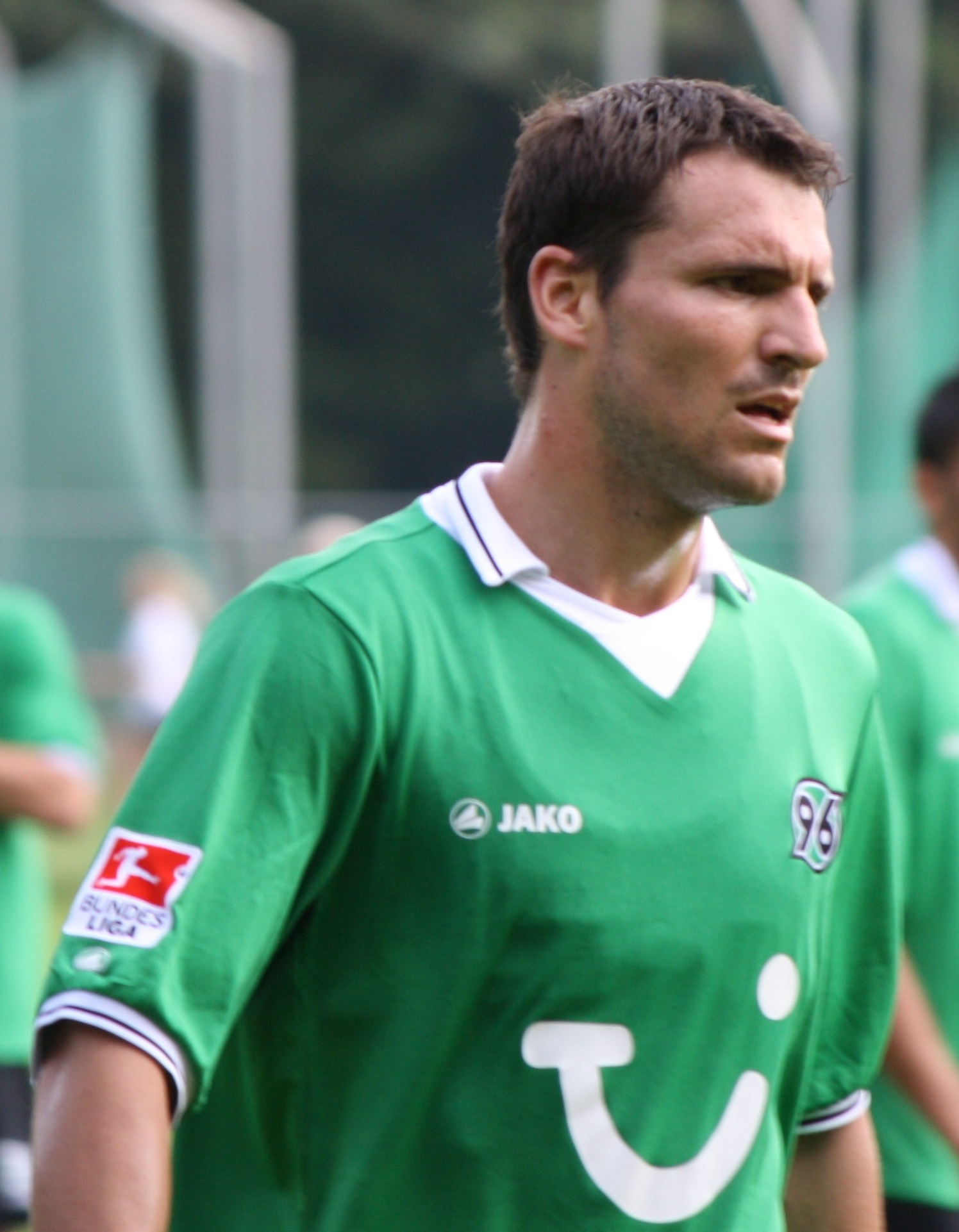 M. Eggimann player Hanover 96